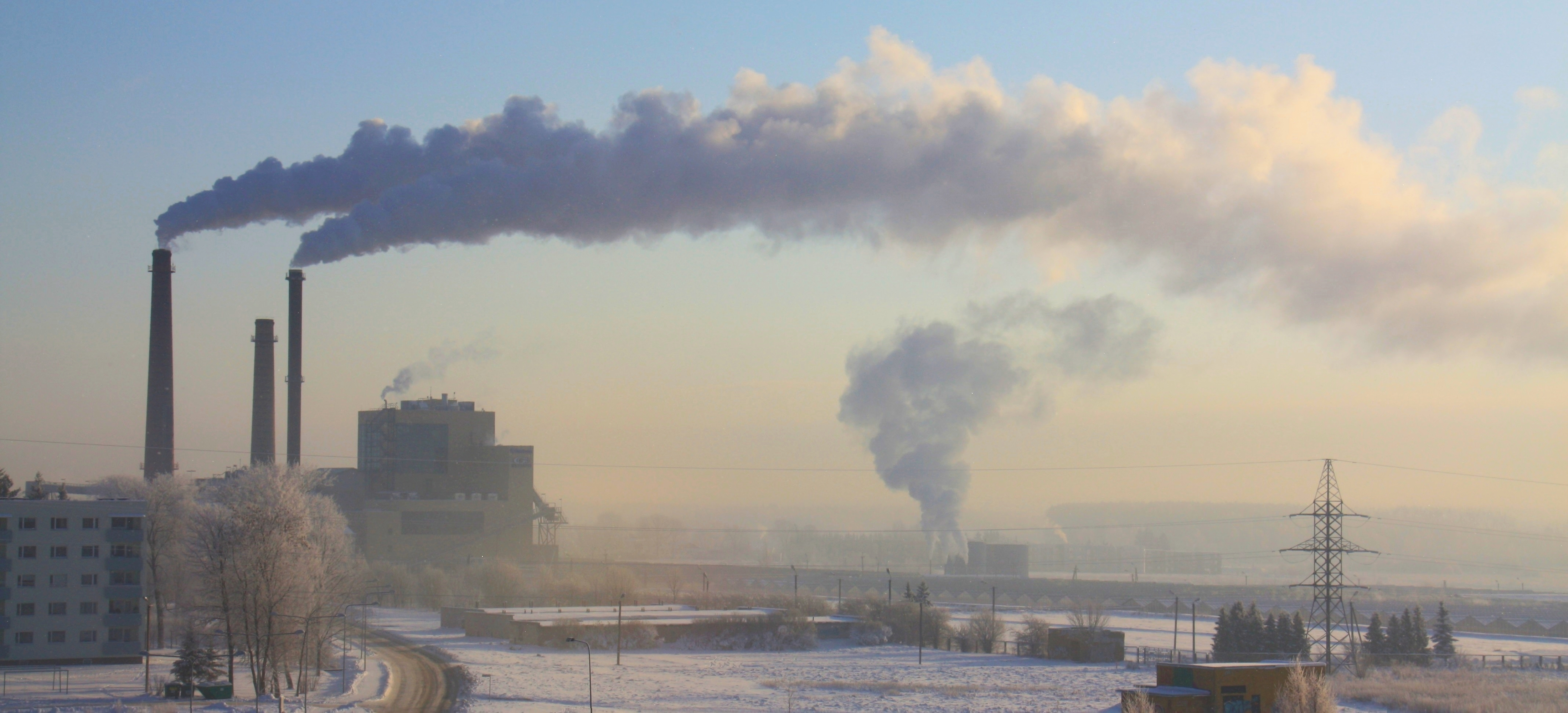 Anne boilerhouse (with the taller chimneys) and greenhouses of AS Grüne Fee (with the shorter chimneys) (near Tartu, Estonia)